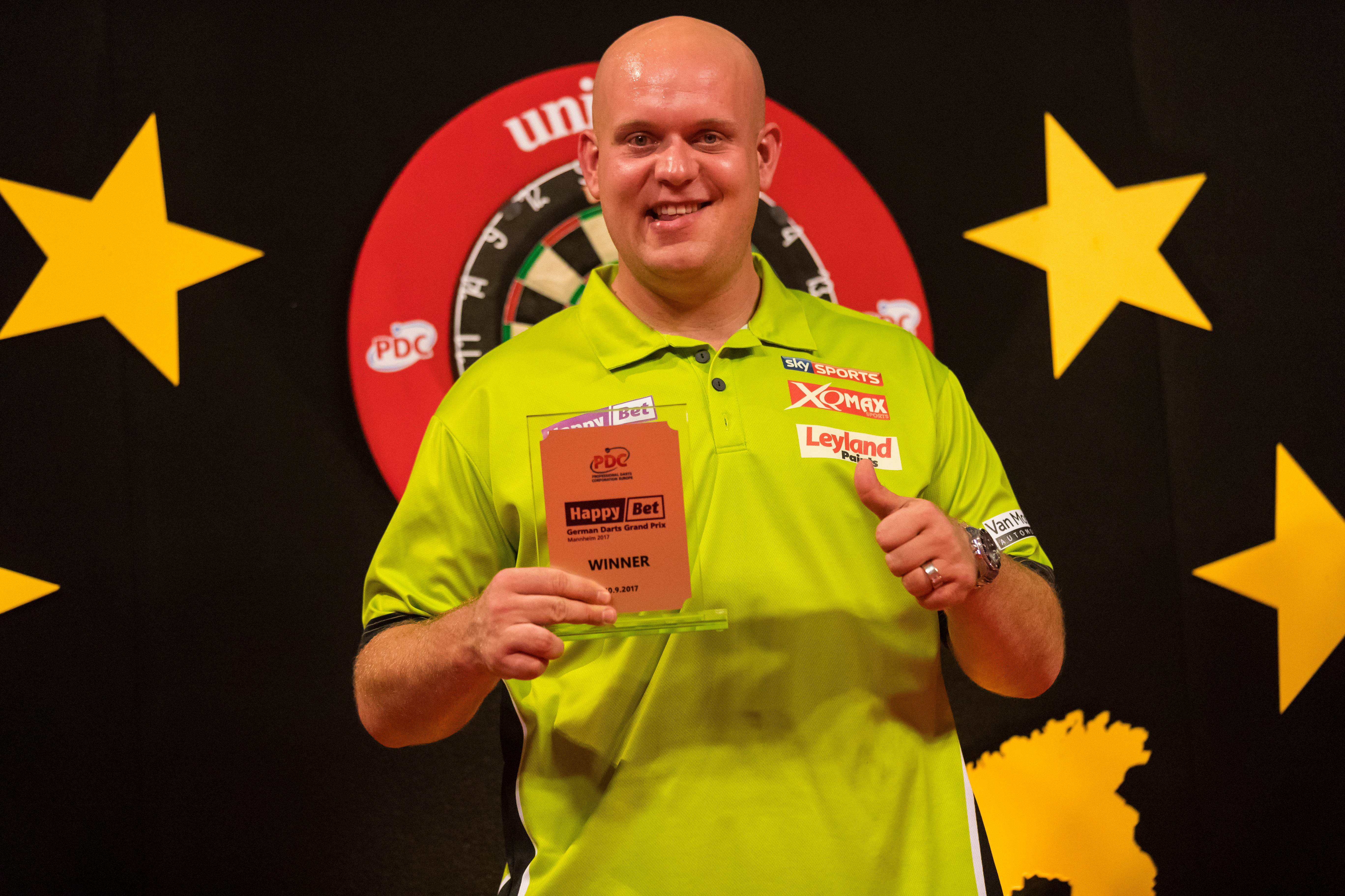 Final: [14] Rob Cross (ENG) 3:6 [1] Michael van Gerwen (NED) during Professional Darts Corporation (PDC), German Darts Grand Prix (GDGP) at Maimarkthalle, Mannheim, Baden-Württemberg, Germany on 2017-09-10, Photo: Sven Mandel